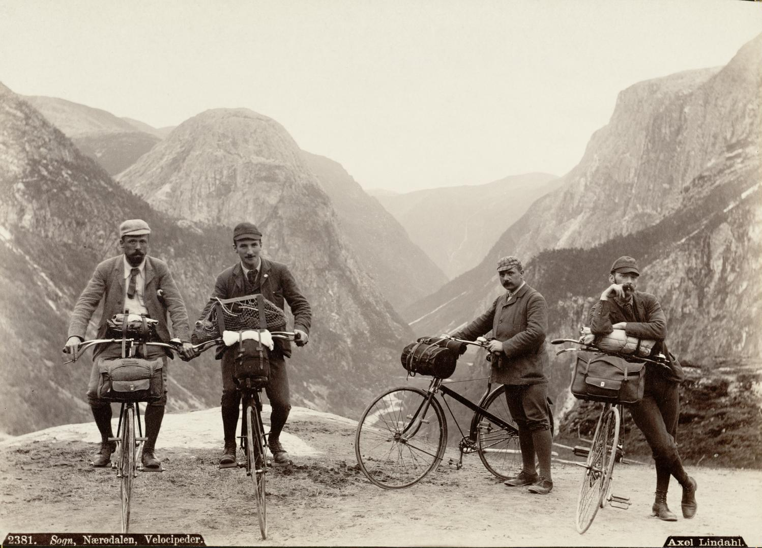 Motiv / Motif: 4 uidentifiserte menn på sykkeltur. Dato / Date: 1880-1890 Sted / Place: Sogn og Fjordane, Aurland, Nærøydalen Fotograf / Photographer: Axel Lindahl (1841-1906) Utgiver / Publisher: Rich. Andvord (Christiania) Digital kopi av original / Digital copy of original: s/h papirpositiv, albumin Eier / Owner Institution: Nasjonalbiblioteket / National Library of Norway Lenke / Link: Bildesignatur / Image Number: bldsa_AL2381